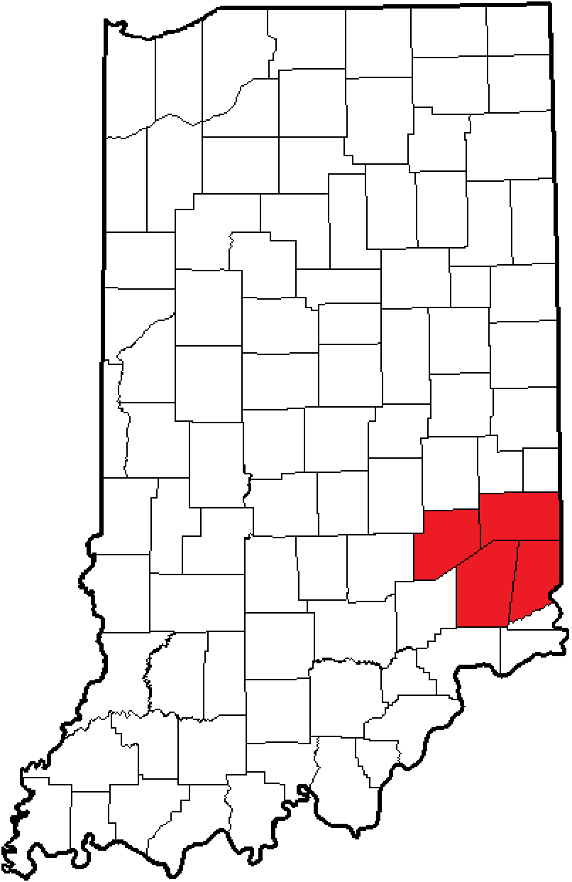 Eastern Indiana Conference within Indiana